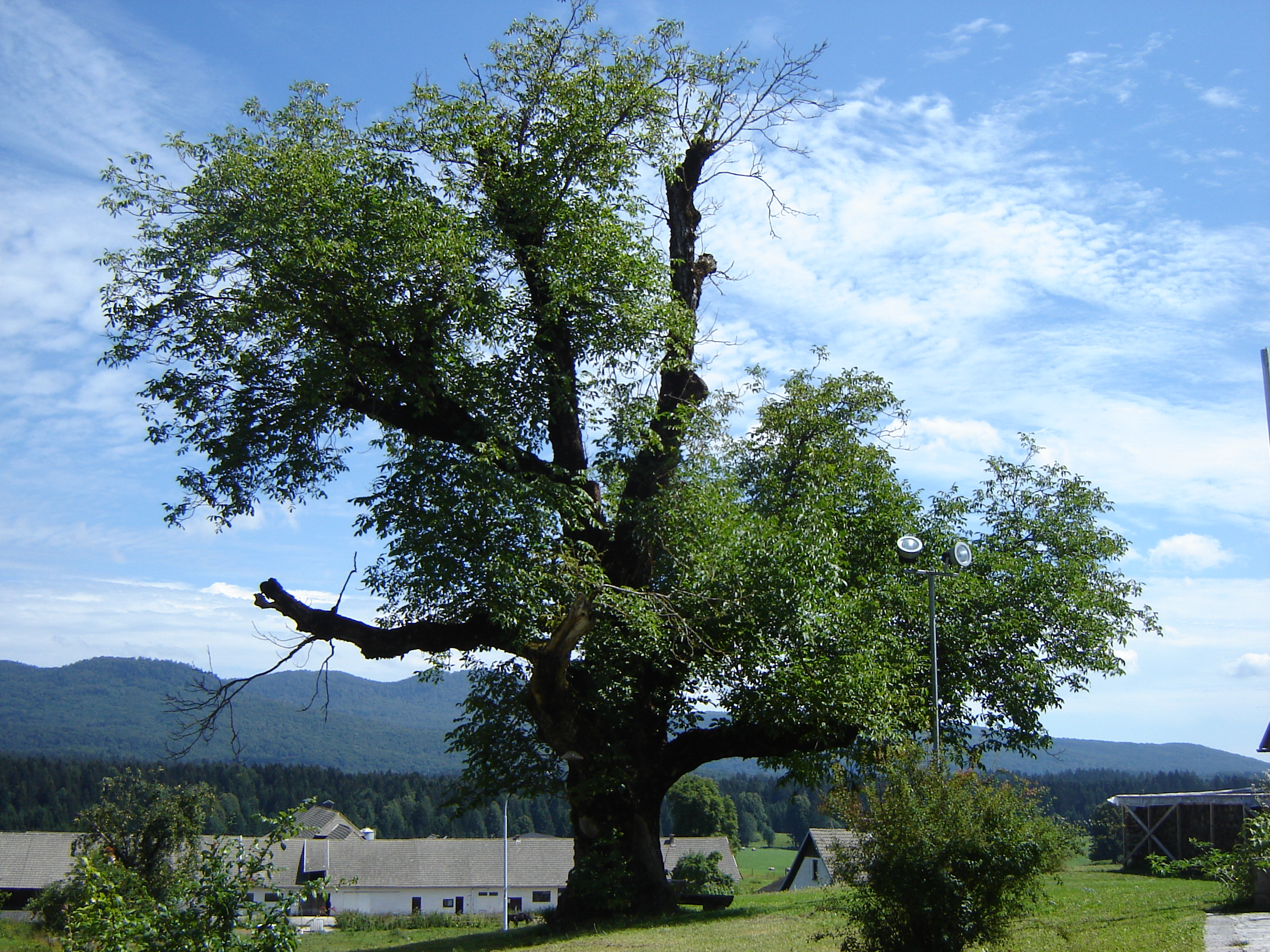 The largest walnut in Slovenija (in village Kočevska Reka).